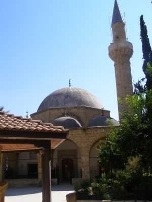 A mosque in Nicosia, Cyprus - northern (Turkish) part